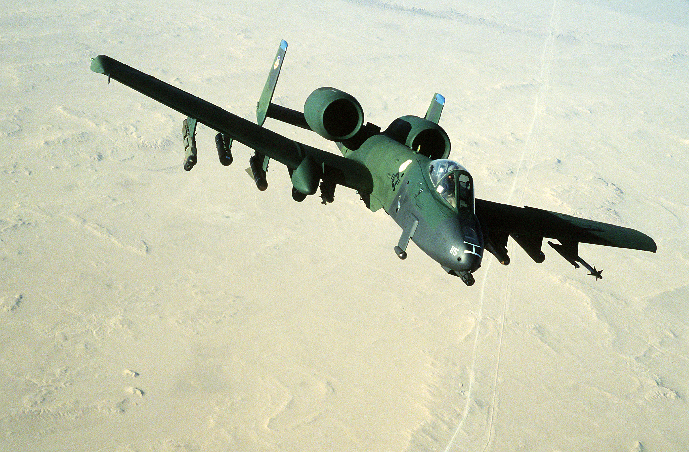 An air-to-air view of a U.S. Air Force A-10A Thunderbolt II attack aircraft from the 354th Tactical Fighter Wing, Myrtle Beach Air Force Base, S.C., during Operation Desert Shield.